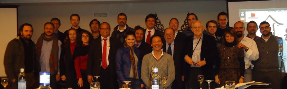 International Workshop on eHealth in Emerging Economies. Group picture from IWEEE 2012